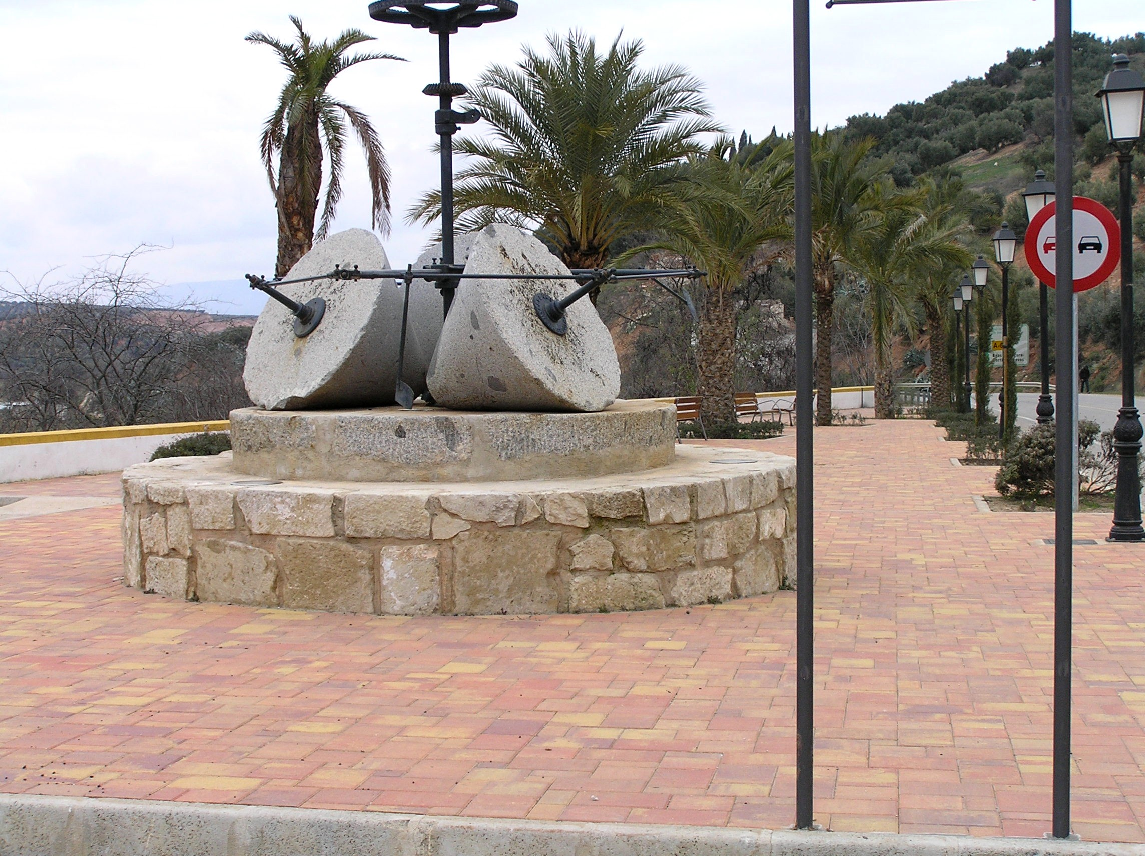 Paseo de Fontvieille en Beas de Segura